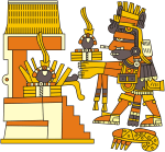 Xiuhtecuhtli, God of Fire